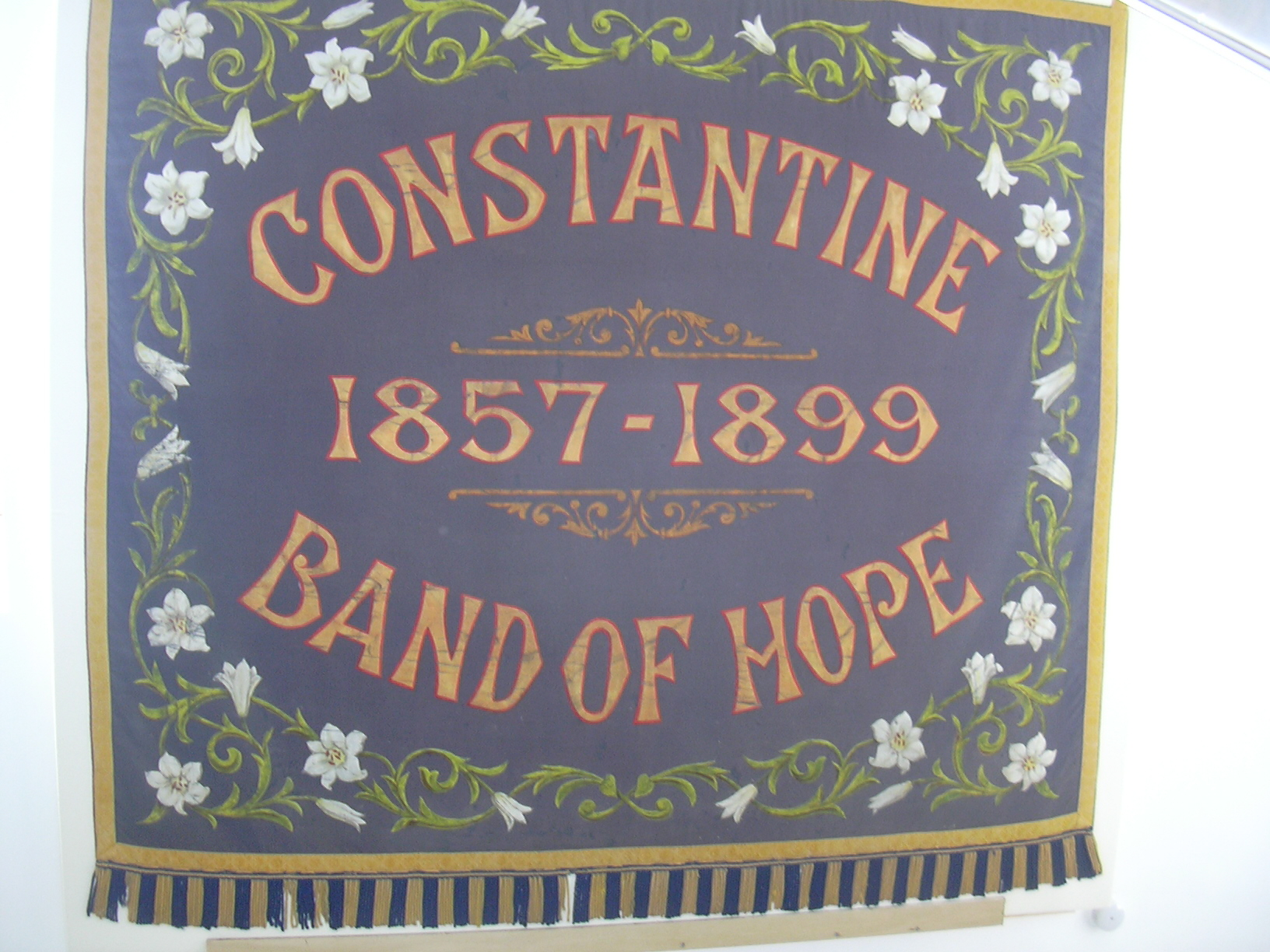 Constantine Heritage Centre: Band of Hope Banner